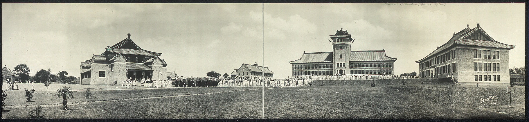 University of Nanking. 1920